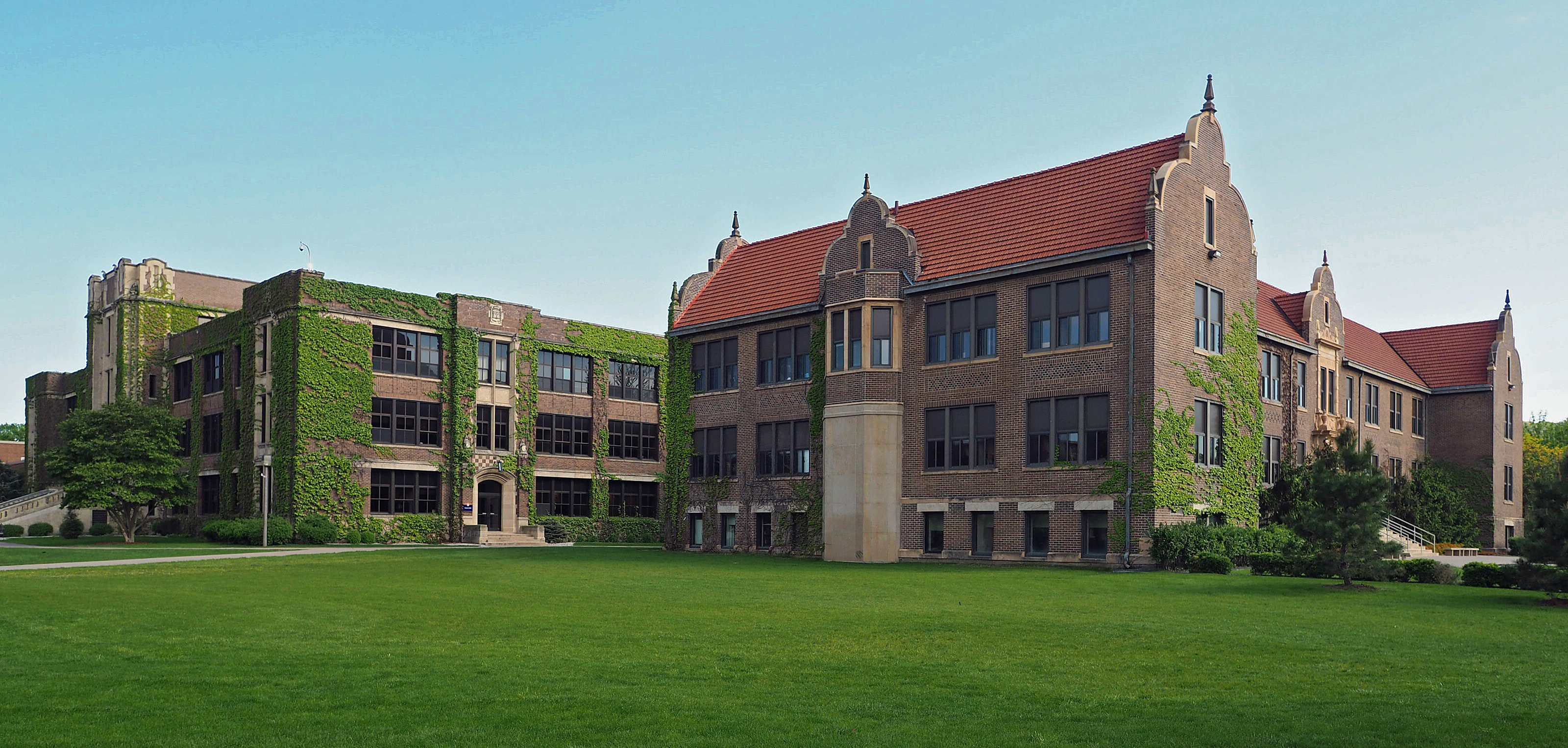 Somsen Hall (left) and Phelps Hall (right), Winona State University, Winona, Minnesota, USA. Viewed from the northwest.